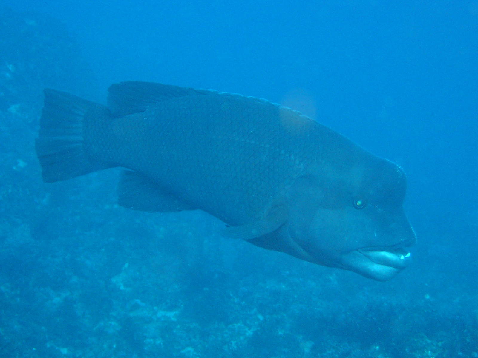 Semicossyphus reticulatus